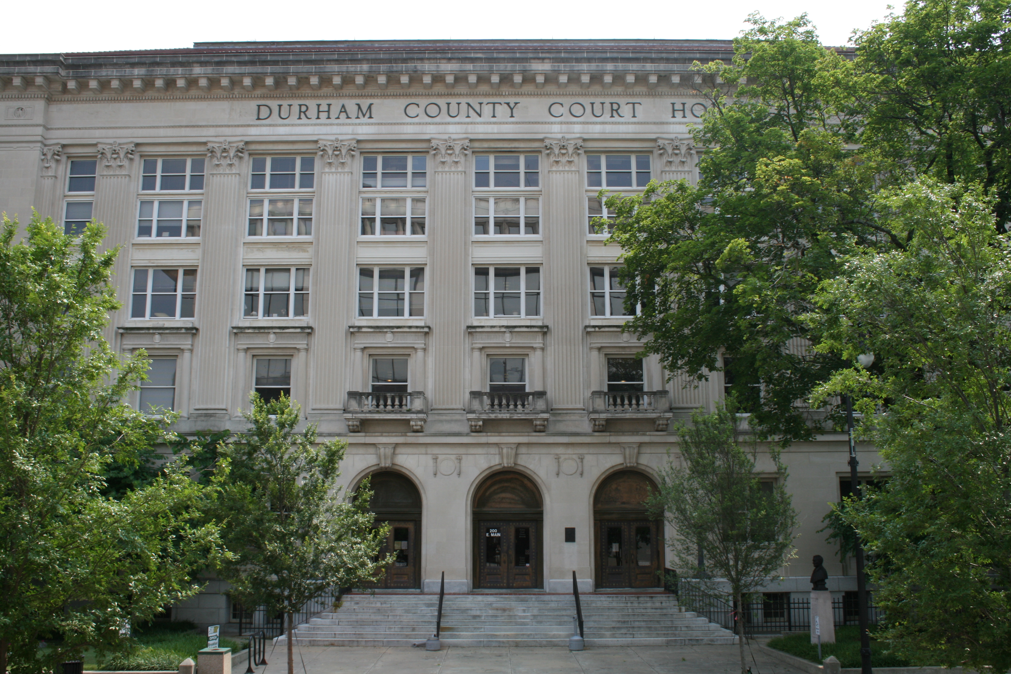 Durham County Courthouse at 200 East Main Street in Durham, North Carolina.